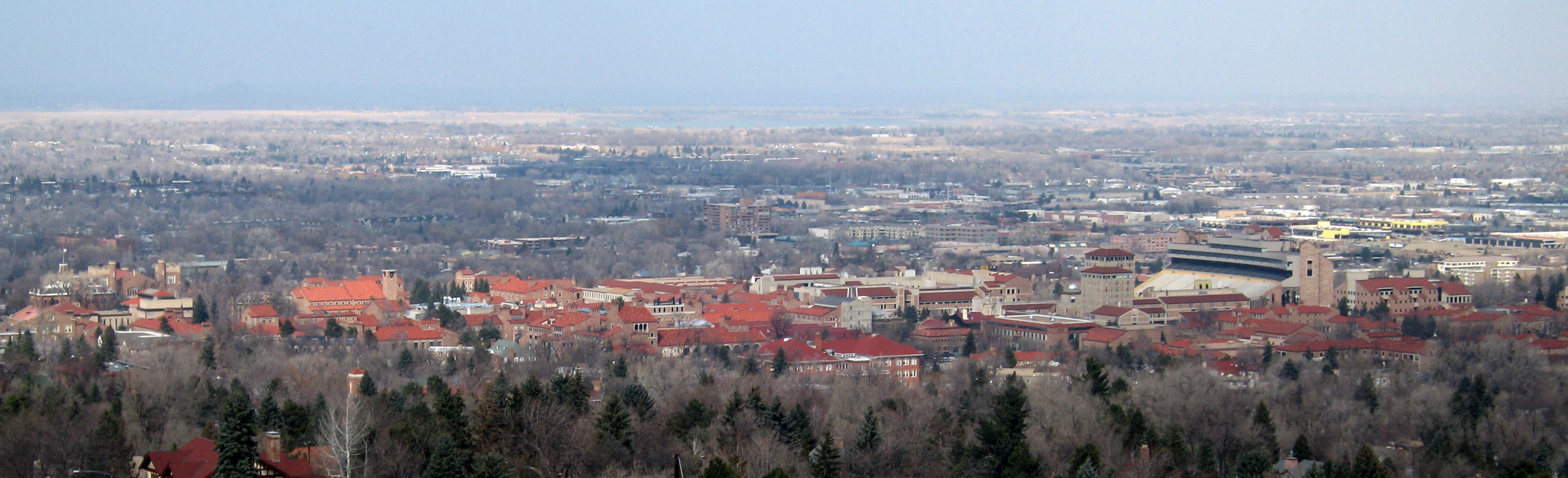 The CU Boulder campus viewed from Enchanted Mesa. Taken March 18, 2006 by Laura Scudder.